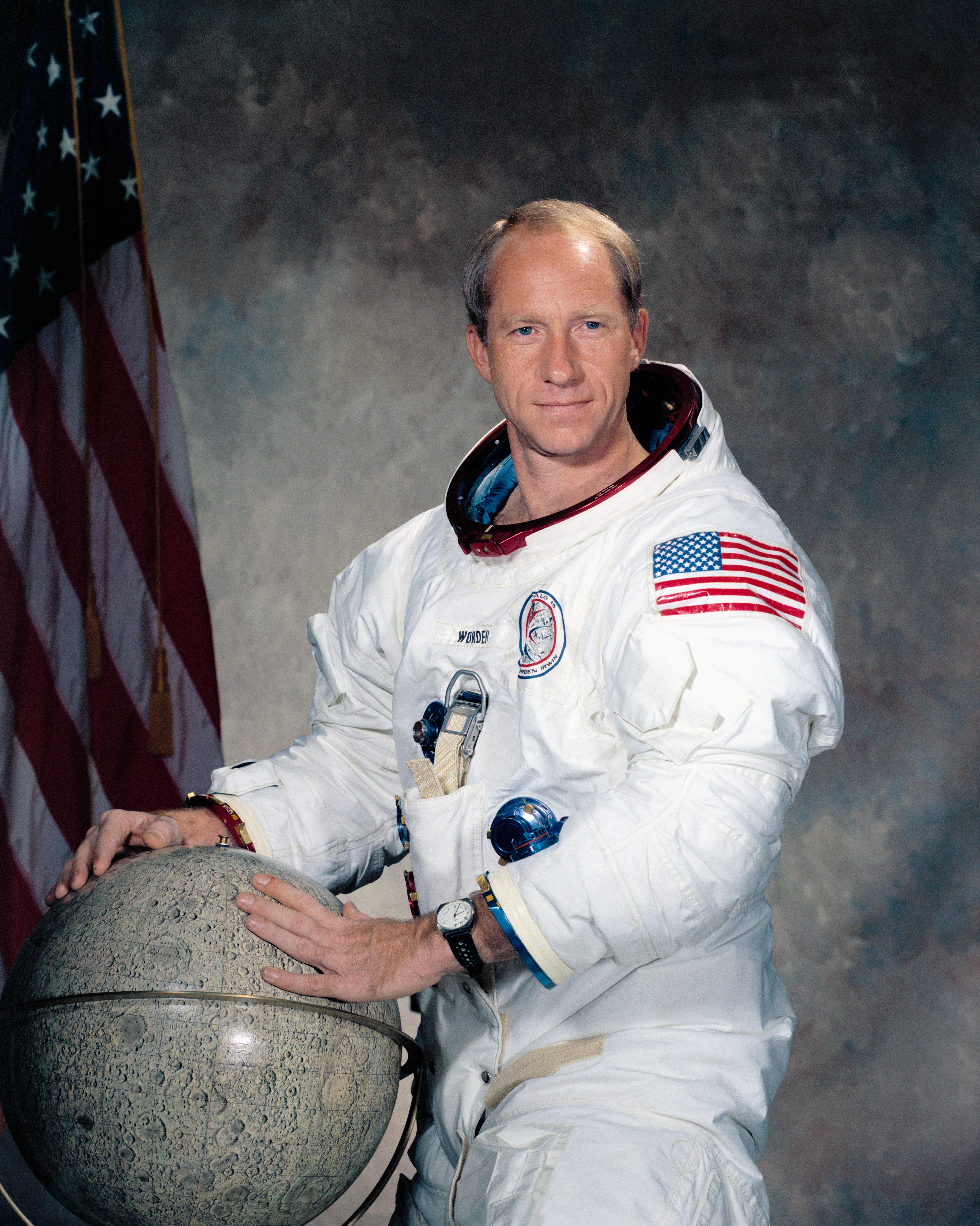 Apollo 15 Command Module Pilot Al Worden.